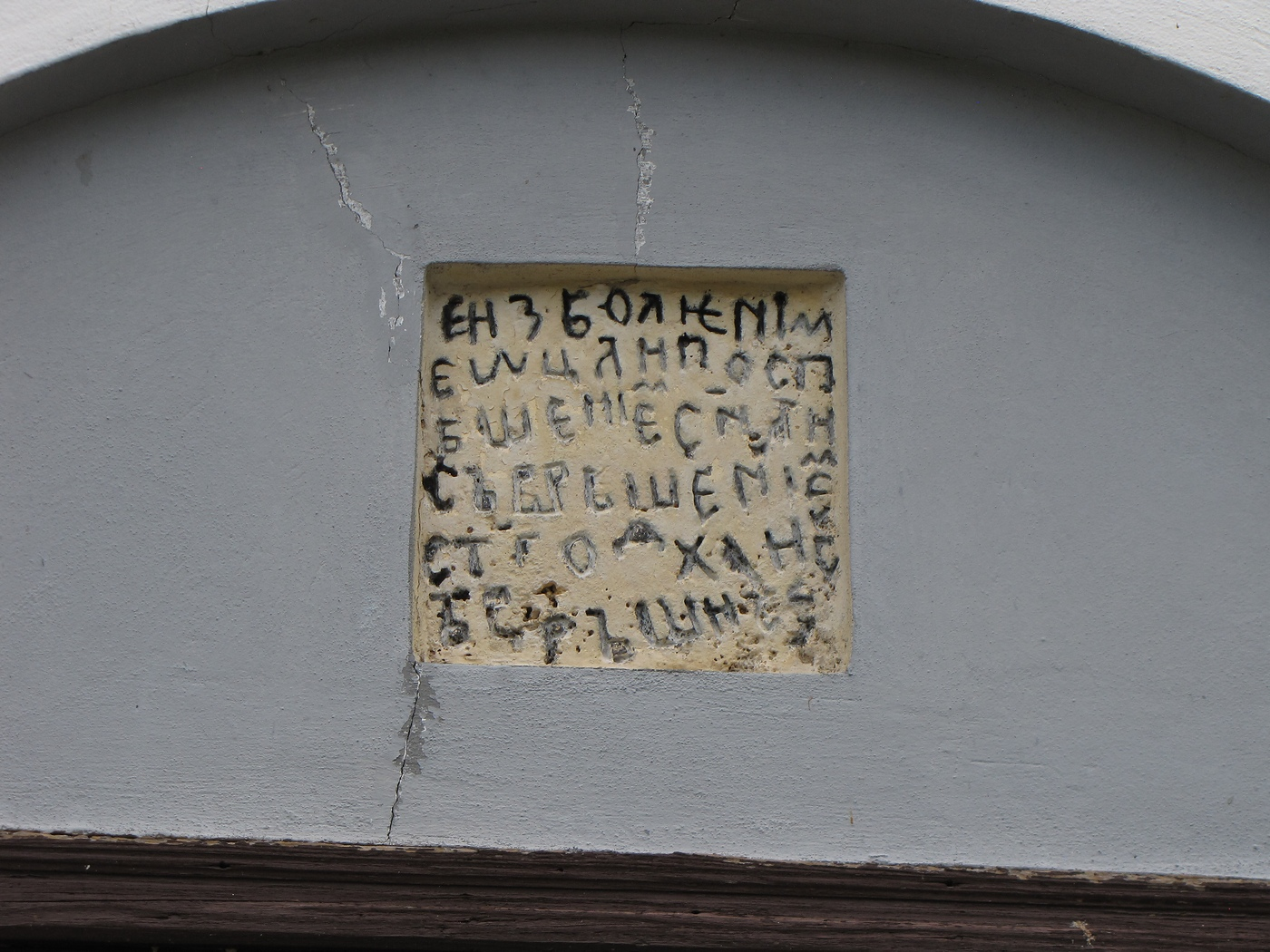 Table on the wall of monastery Mustar in village Iskrovci